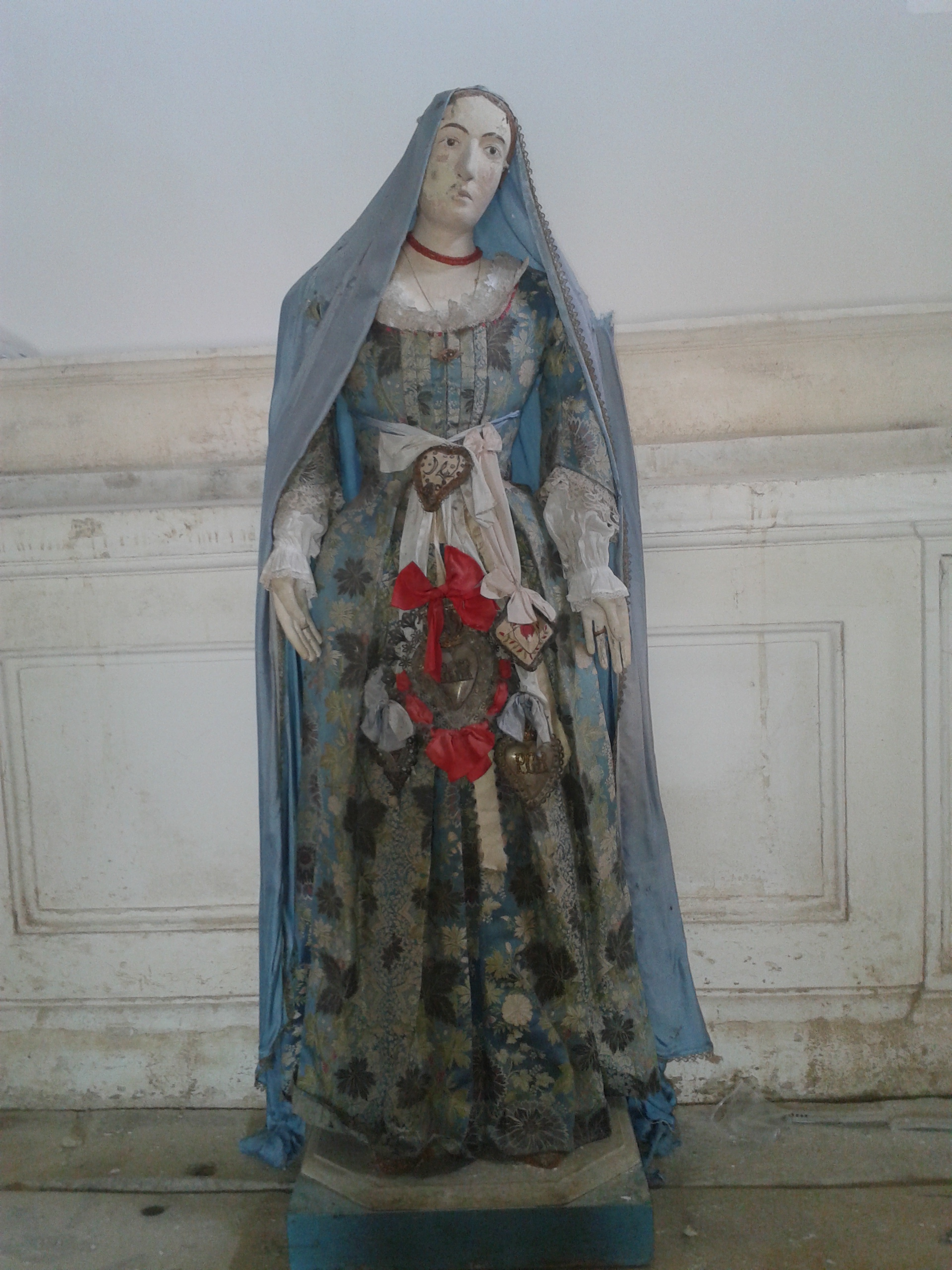 la statua della Vergine facente parte del gruppo della deposizione